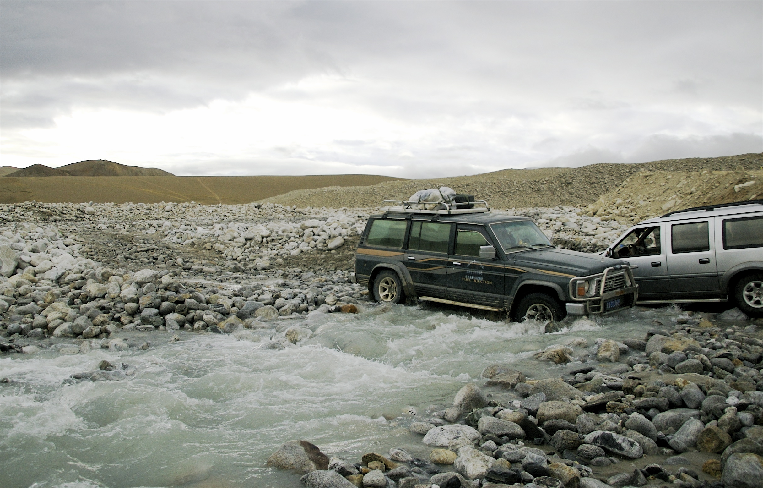 Fording a creek on the trail to Mount Qomolanga (Everest) from Tingri (Tibet)